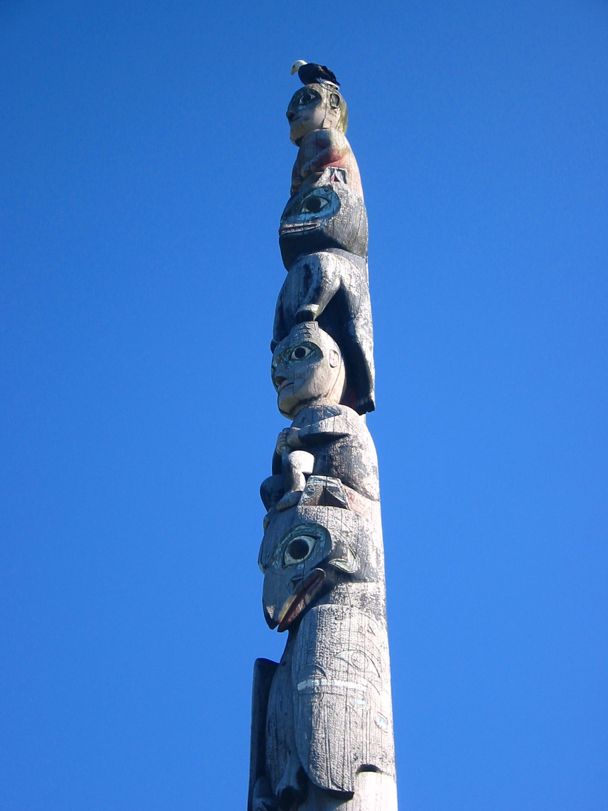 This bald eagle swooped down and perched right on top of the totem pole I was photographing in Sitka, Alaska.Eagle on a totem pole